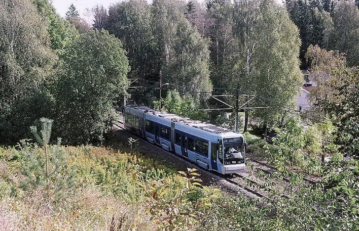 SL95 trams of the Oslo Tramway on the Kolsås Line between Tjernsrud and Ringstabekk.